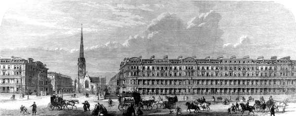 Lancaster Gate, London when new. The terrace of houses on the right was started in 1863 and completed in 1867. The church is Christ Church, Lancaster Gate, only its tower survives. Illustrated London News 1866.